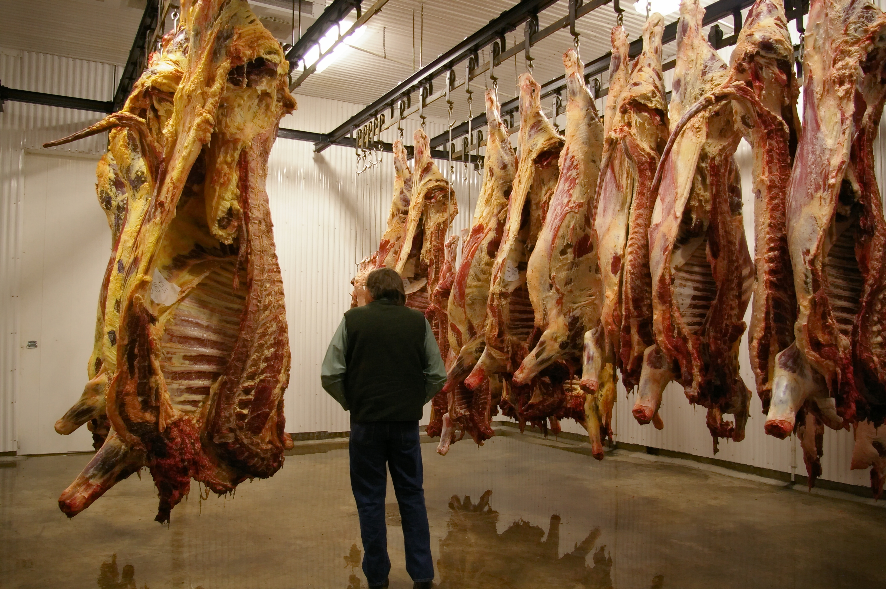 Meat hanging in the first cooler room of the processing facility. Freshly slaughtered animals are on the left, day-old animals on the right.